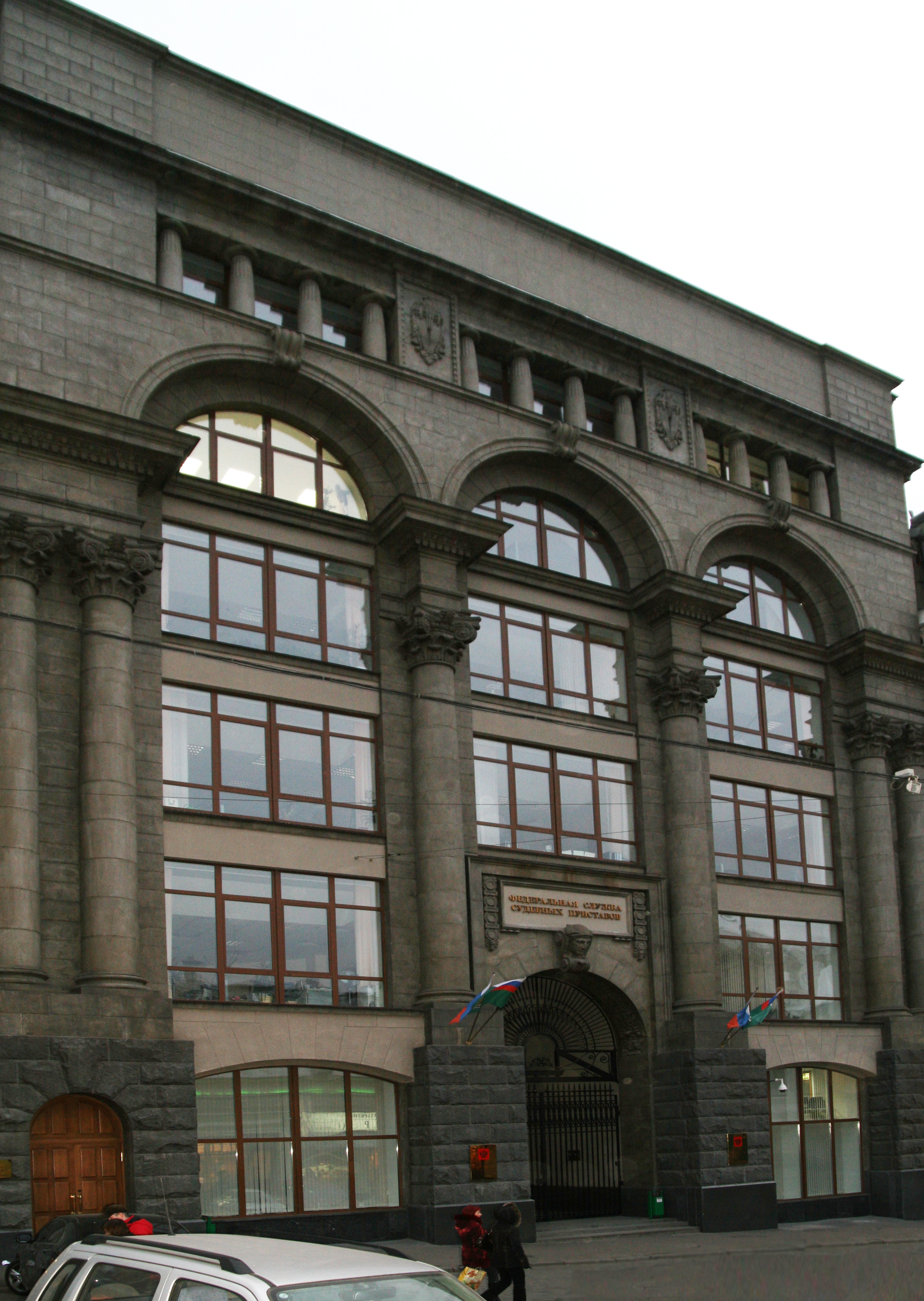 Moscow, Kuznetsky Most Street 16